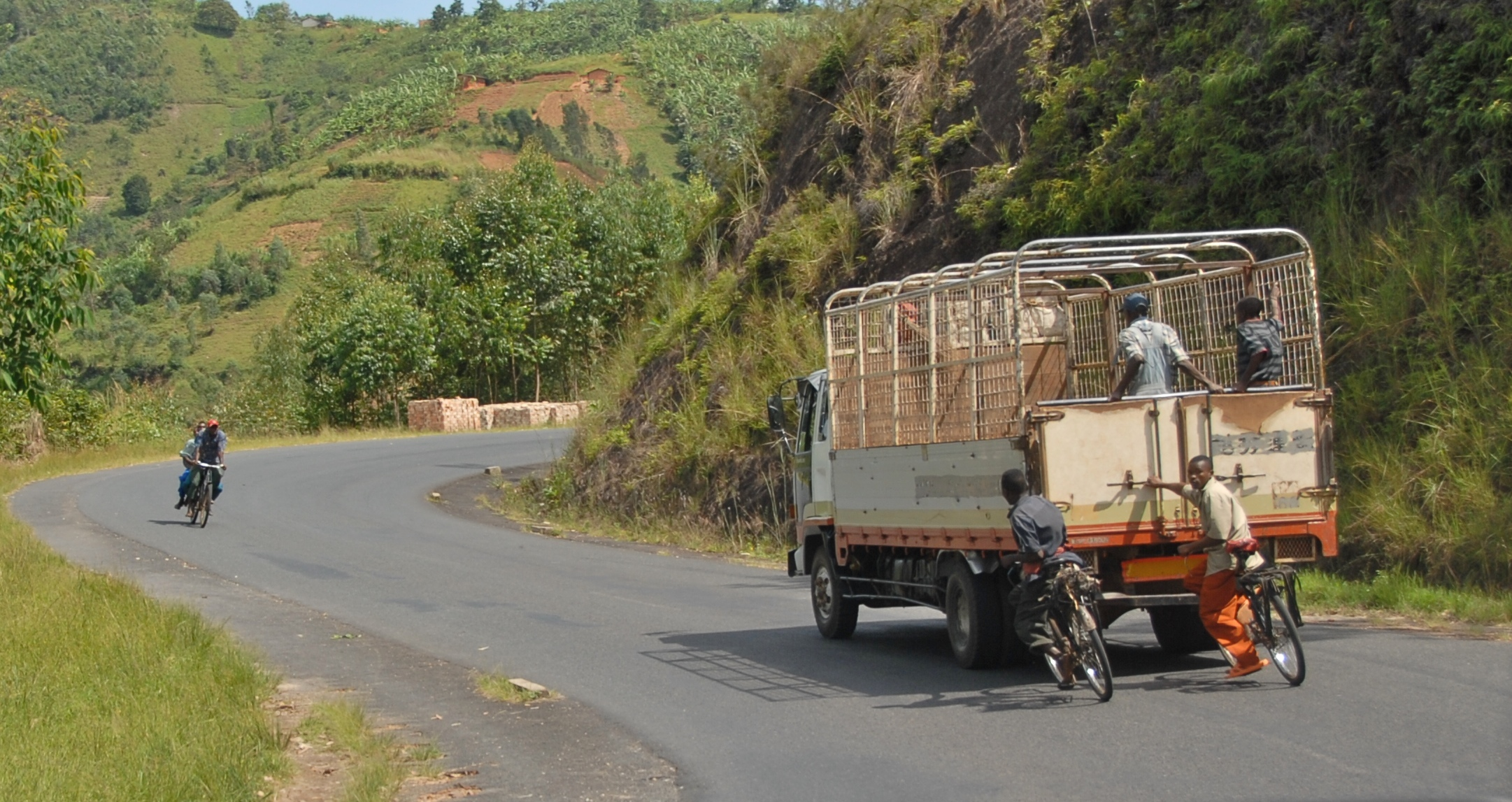 Truck and bicylists near Gitega, Burundi.jpg